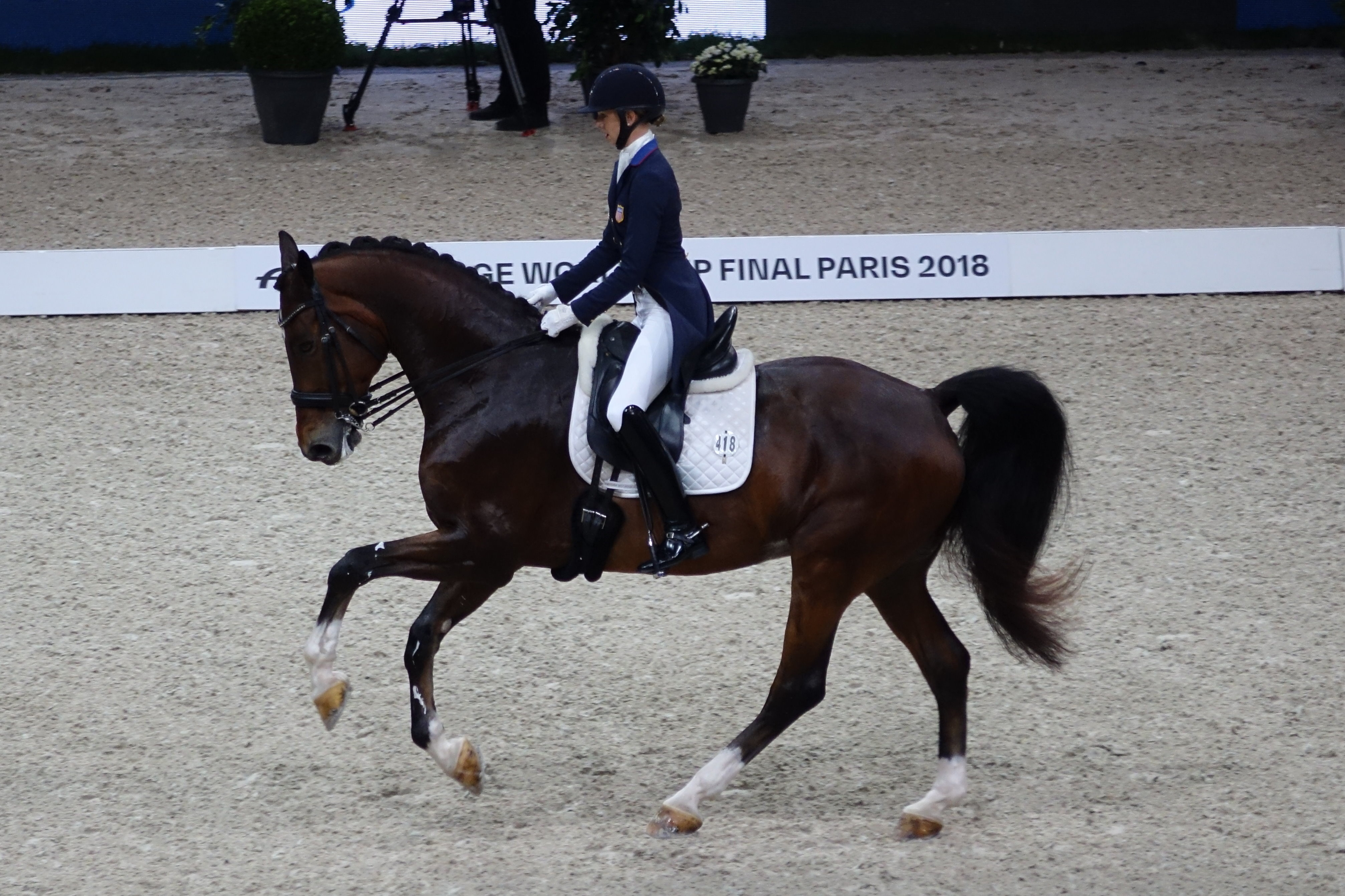 FEI WORLD CUP DRESSAGE FINALS PARIS 2018 Laura Graves & Verdades (KWPN)